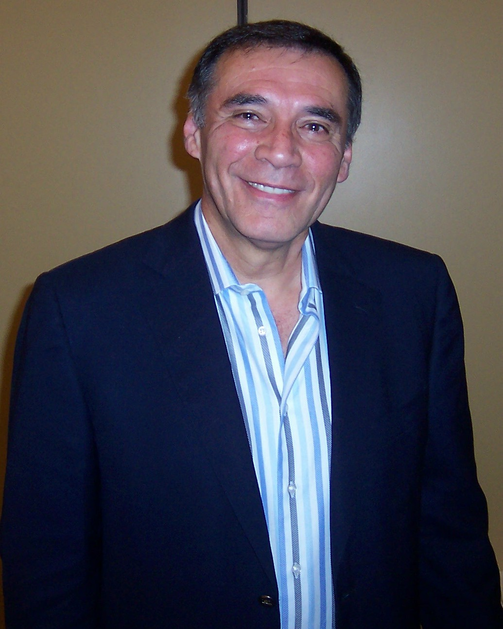 Jamil Mahuad, former President of Ecuador. Photo taken November 5, 2007 by uploader.